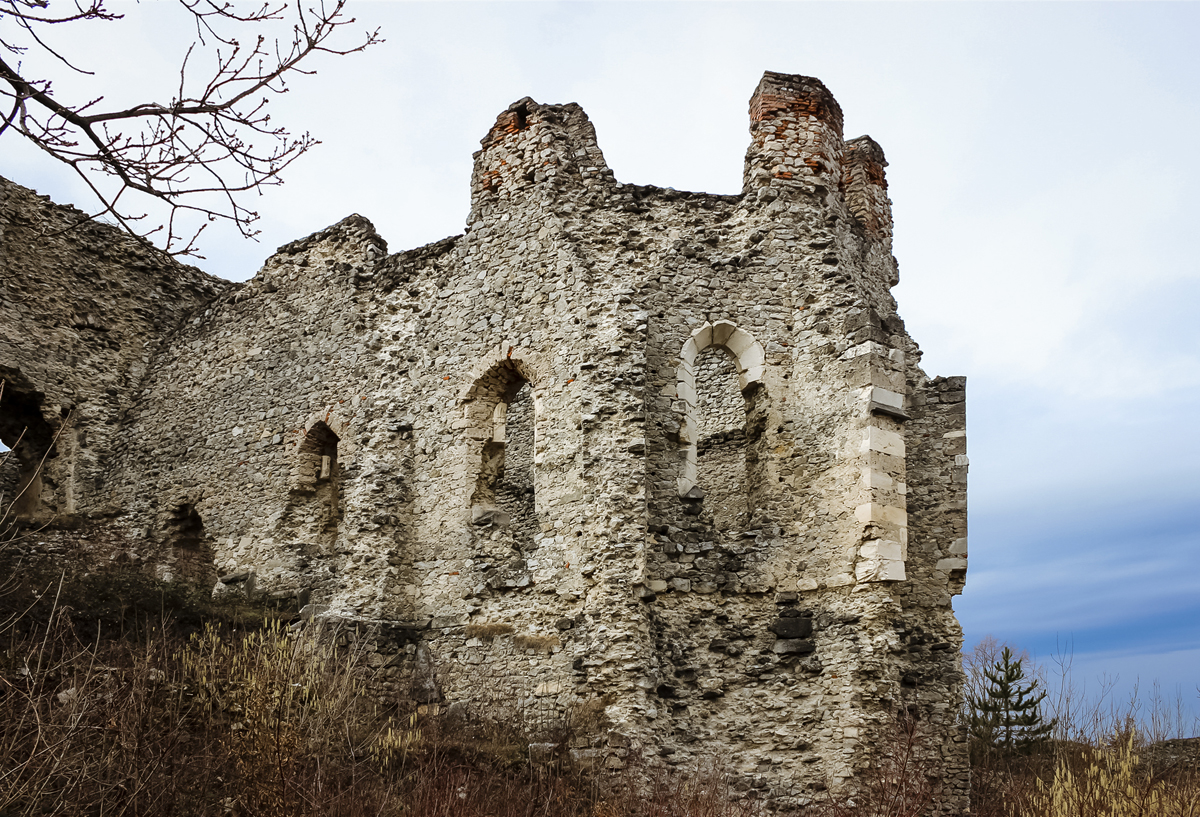 Orahovica